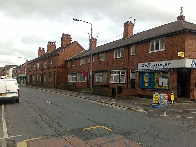 Chilwell Road, Nos. 75 to 93 The demolition of all of these properties is proposed for the NET Phase II extension. The inbound Chilwell Road tram stop will be sited about where the white van is on the left.